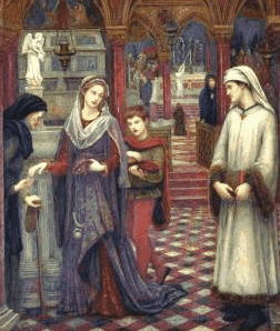 "First Meeting of Petrarch and Laura in the Church of Santa Chiara at Avignon